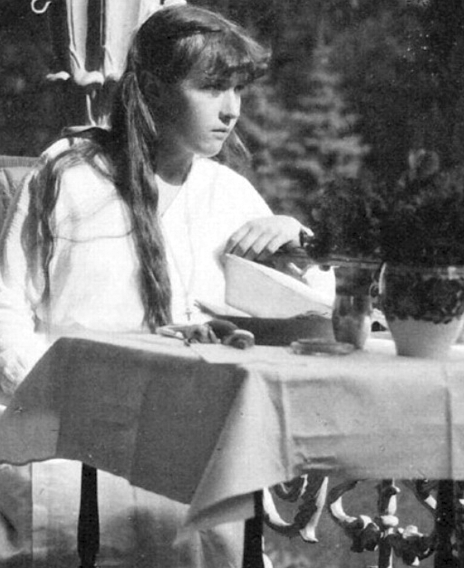 Anastasia Nikolaevna